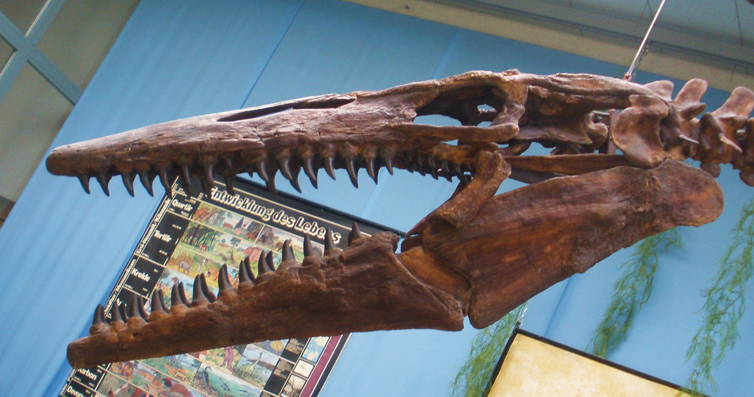 fossil of Tylosaurus